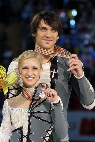 Tatiana VOLOSOZHAR and Maxim TRANKOV at the 2011 World Figure Skating Championships